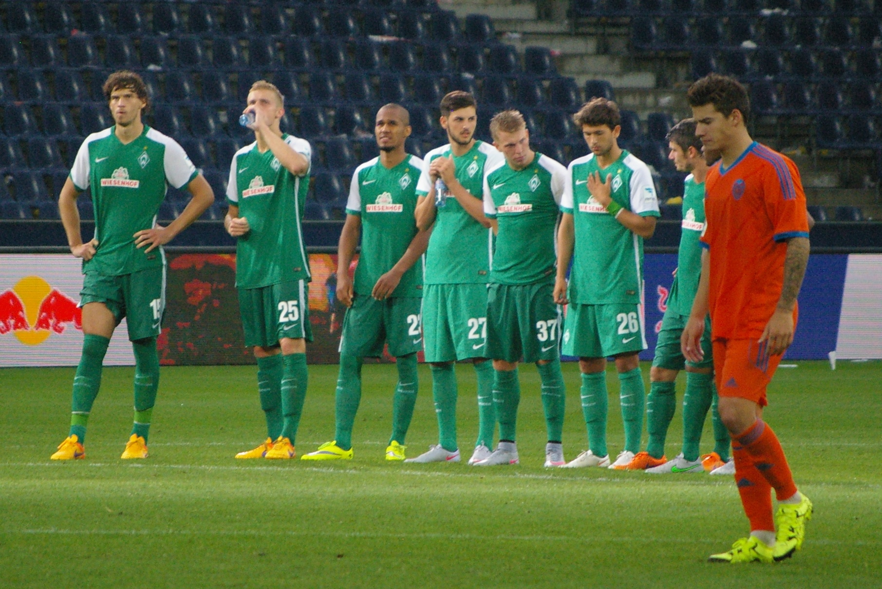 tournament with SV Werder Bremen, FC Southampton, Red Bull Salzburg and Valencia CF preseason friendly matches